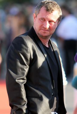 Vadim Perelman, Jury of projects pitching of the Odessa international film festival-2011